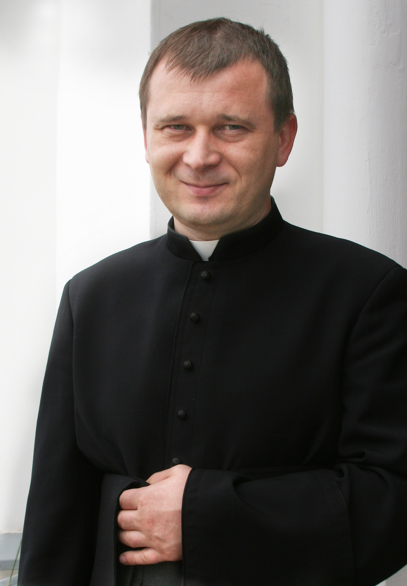 Picture of Siarhei Surynovic (Jauhen Bartnicki), a Belorussian poet, painter and Catholic priest